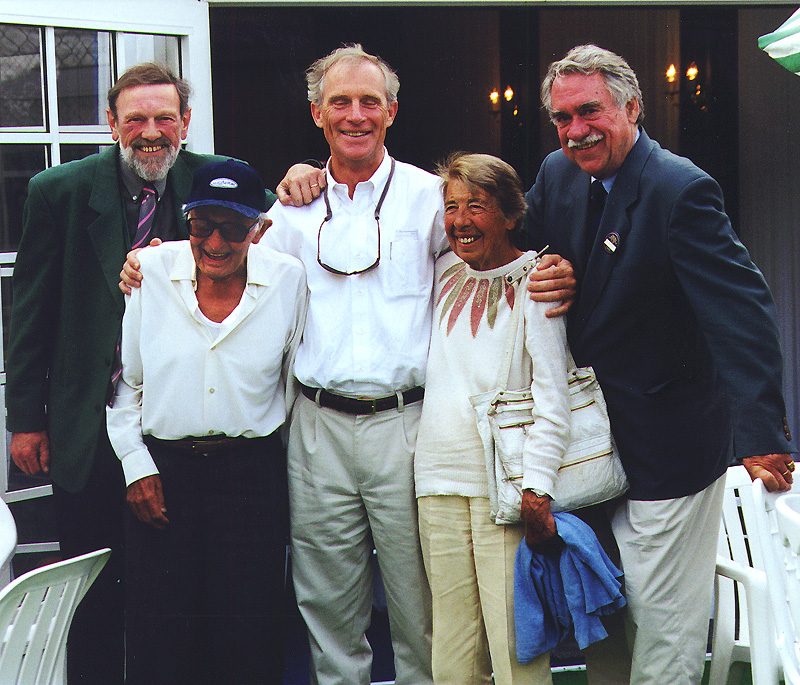 From left: Jørgen Ulrich, Harry Meistrup, Jan Leschly, Eva Meistrup, Kurt Nielsen (Wimbledon, England, june 1999).